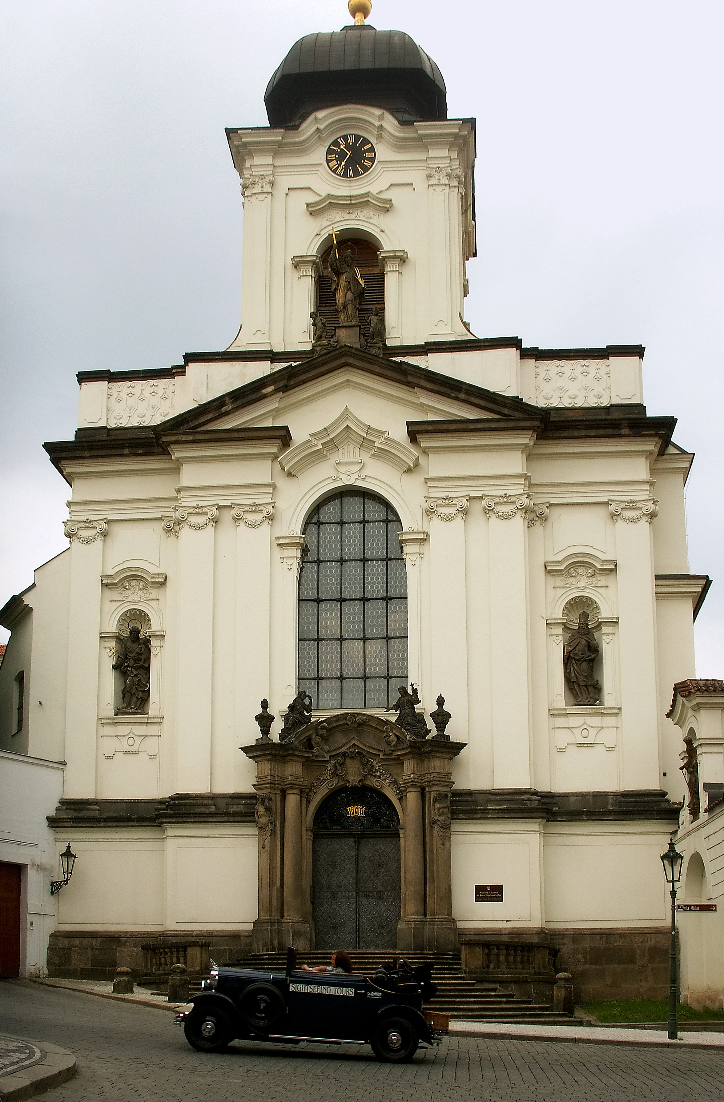 Church of st. John Nepomuk, Prague